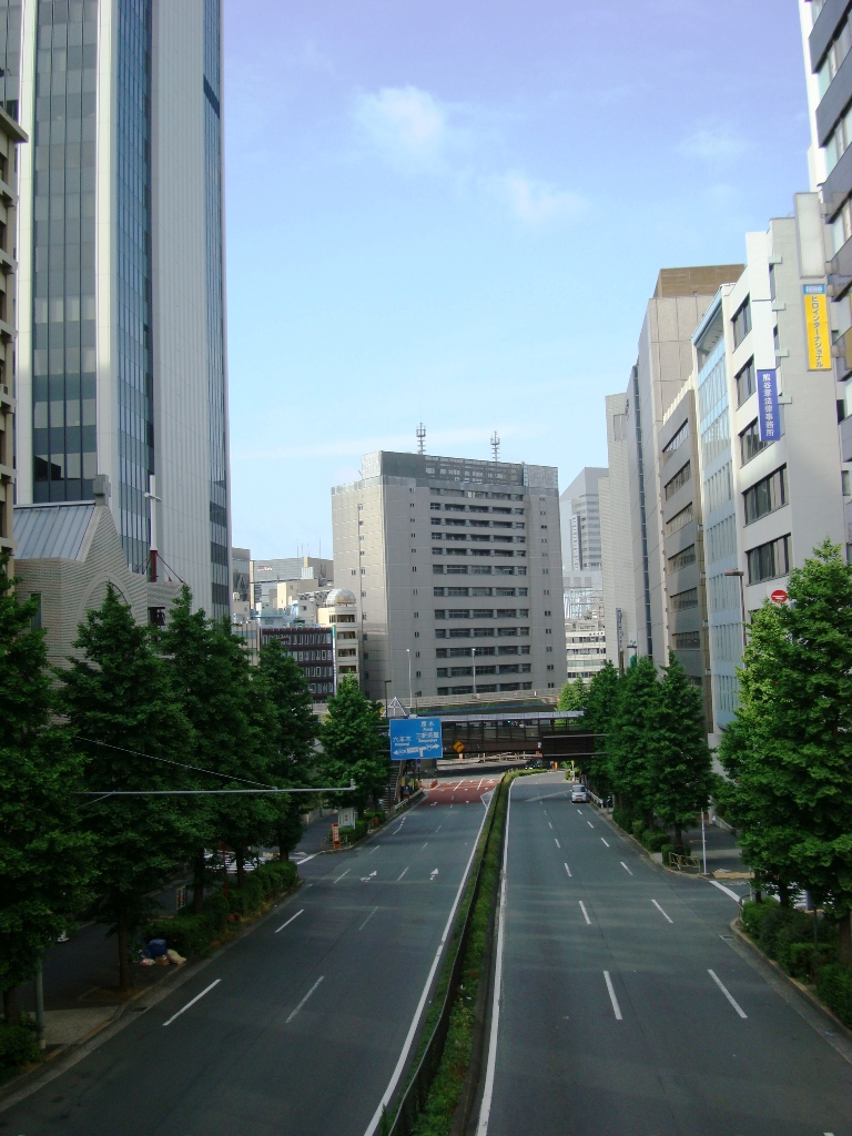 Route 246 (Aoyama-dori) at Konno-zaka, Shibuya, Tokyo